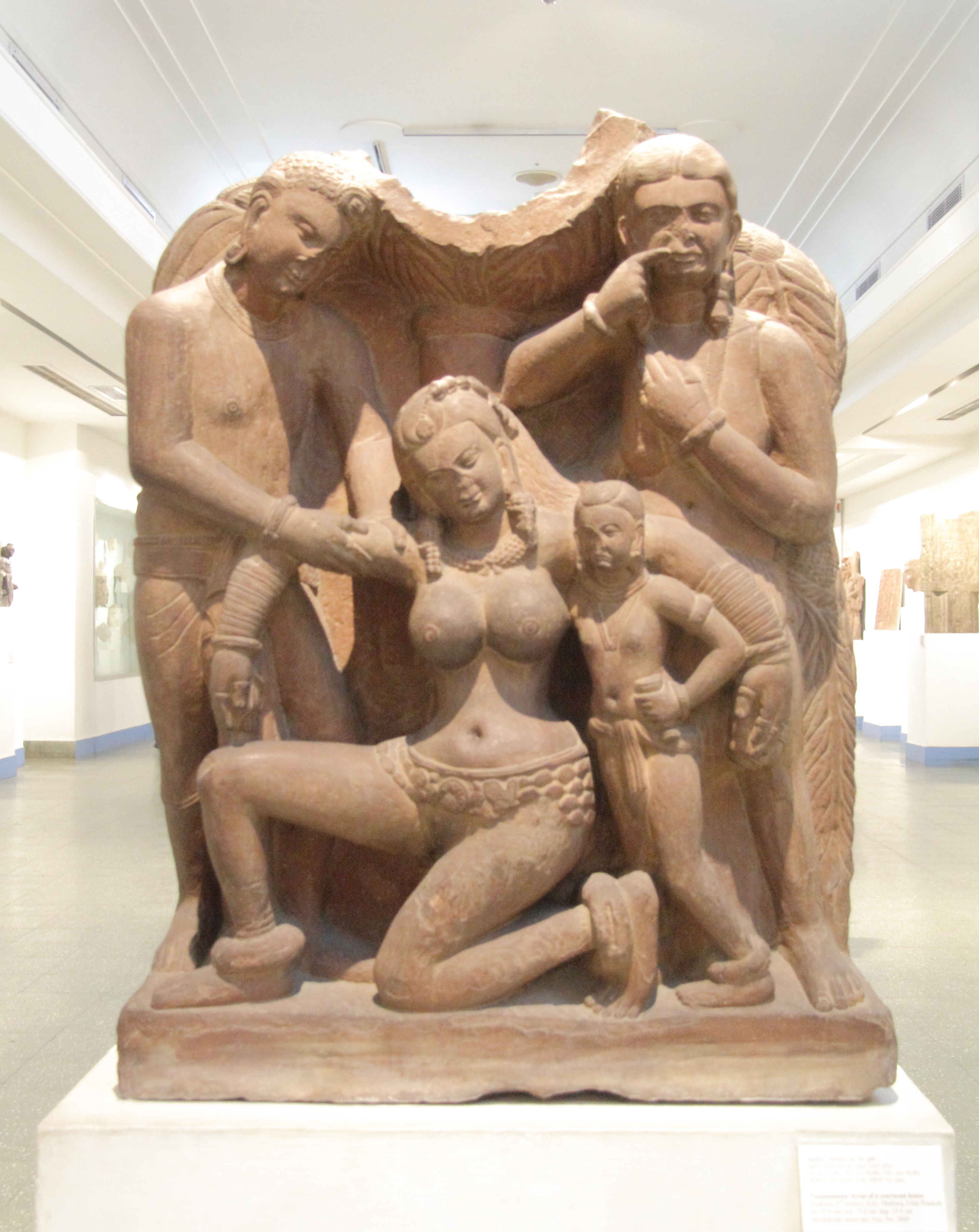 India: National Museum, New Delhi, Vasantasena, scene of a courtesan house, from the time of the Kushan Empire, 2nd century A.D., Mathura, Uttar Pradesh, mottled red sandstone